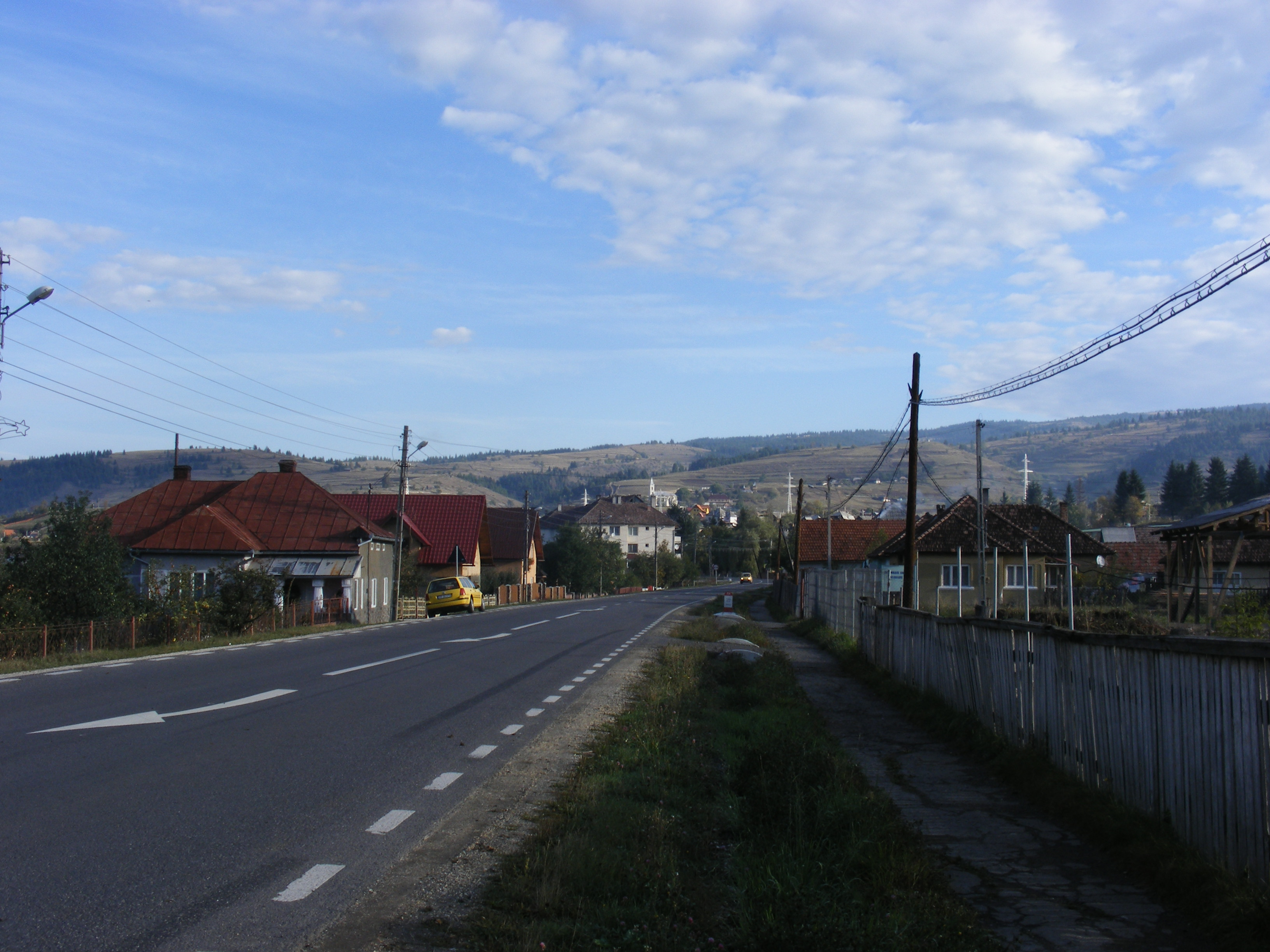 Sărmaş in Romania, Harghita CountyRomână: Sărmaş în Judeţul Harghita.